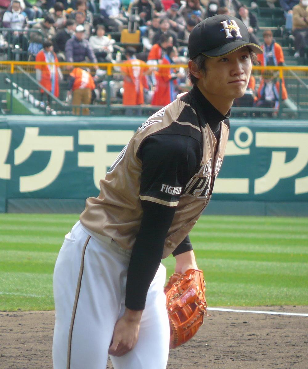 NF-Haruki-Nishikawa20120310